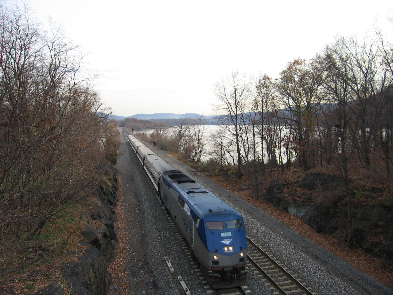 An Empire Service train running along the Hudson River. This photo was taken near Cold Spring, New York, at the southern edge of the Hudson Highlands State Park.